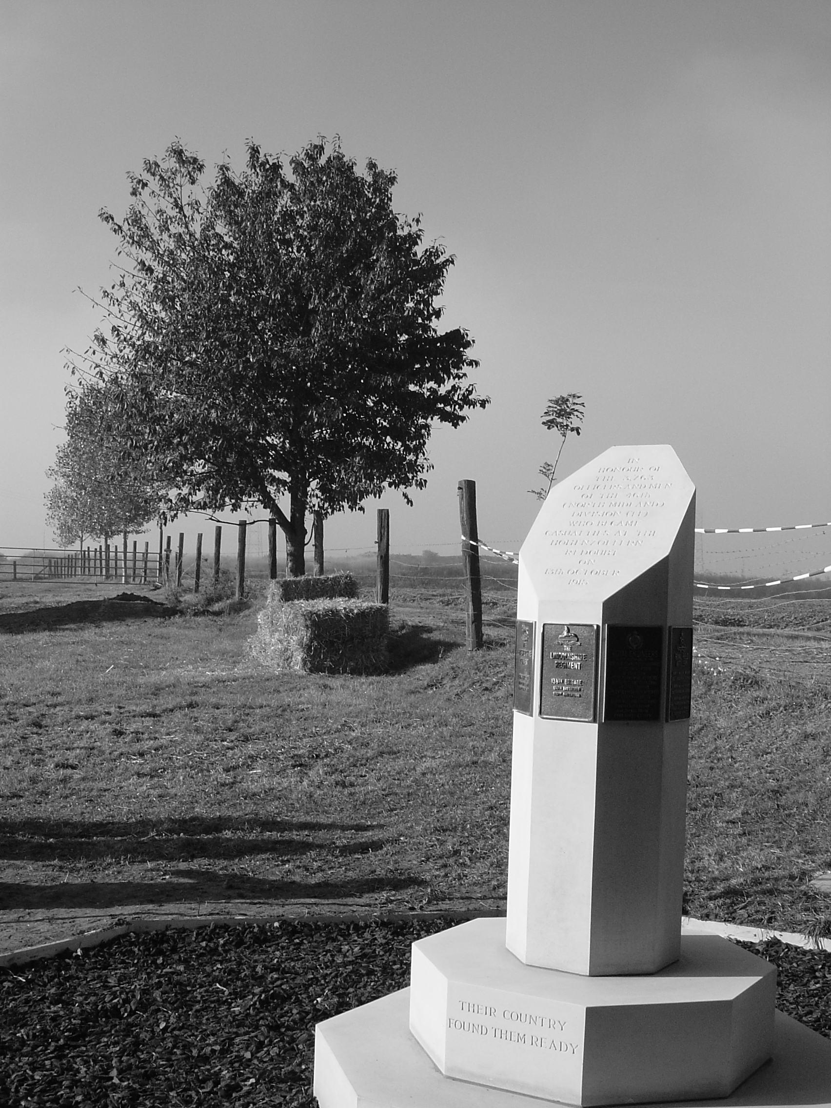 The memorial commemorating the 3,763 officers and men of the 46th (North Midland) Division (TF) who became casualties at the Hohenzollern Redoubt on 13th October 1915. The memorial was unveiled on 13th October 2006.